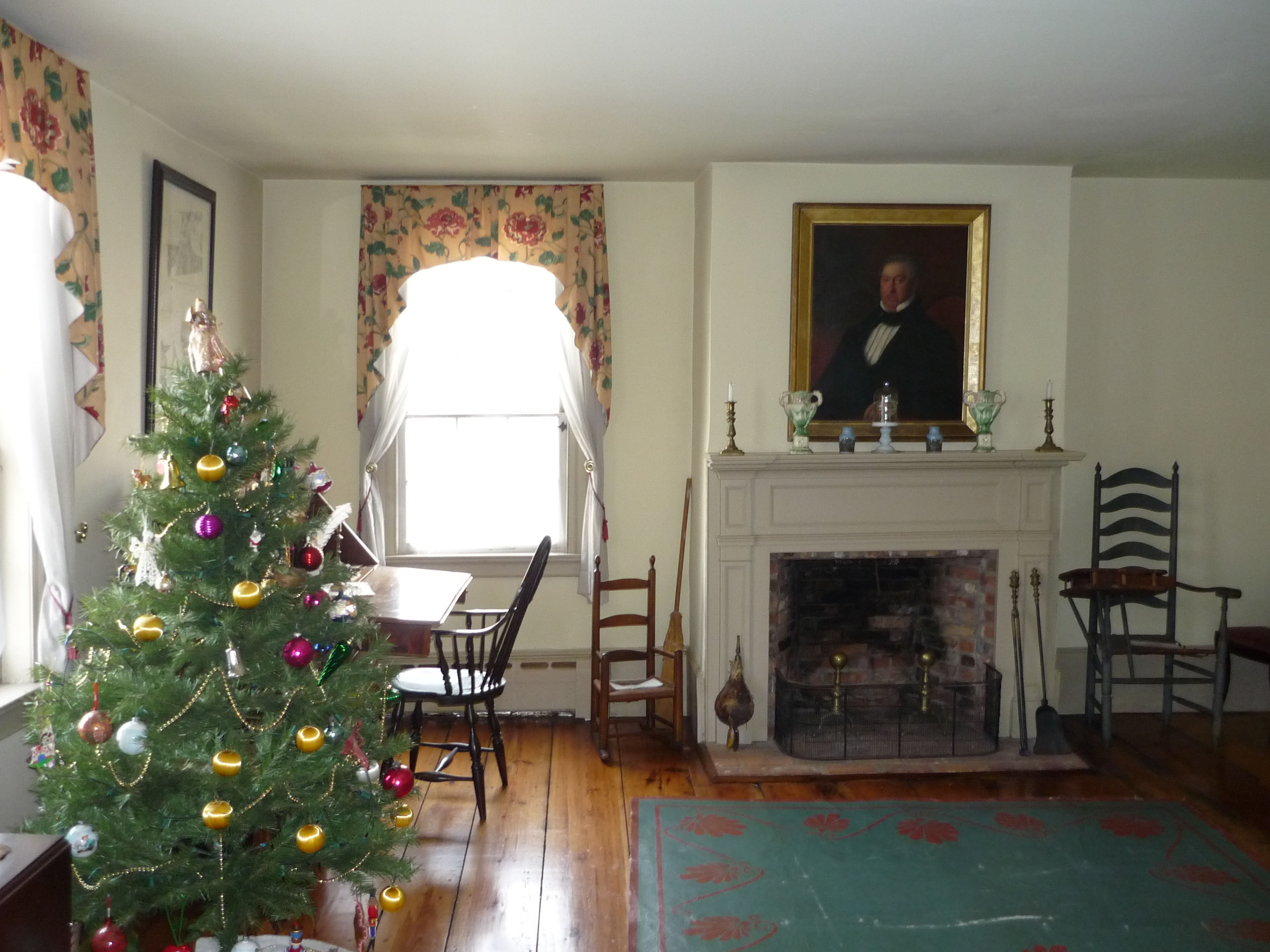 Earle-Wightman House (interior), Oyster Bay, New York